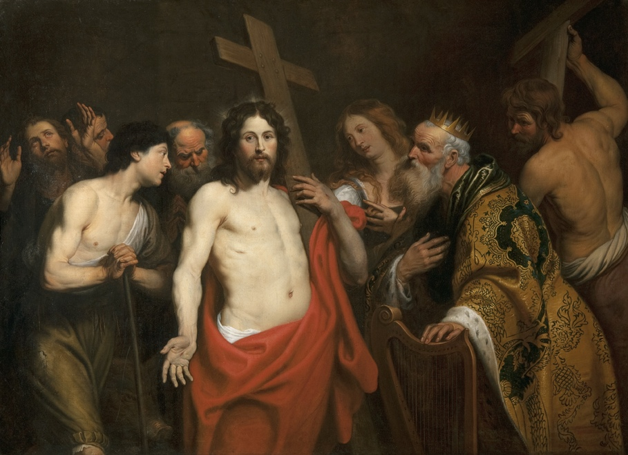 Christ and the Penitents